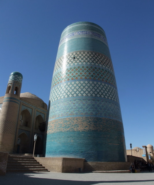 Kalta minar at Itchan Kala in Uzbekistan.